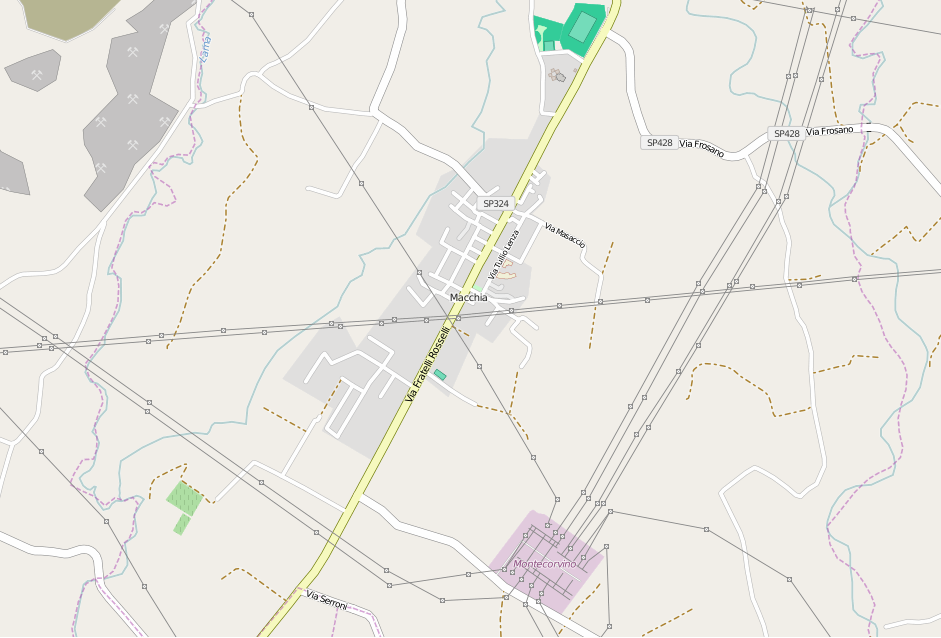 This map may be incomplete, and may contain errors. Don't rely solely on it for navigation.